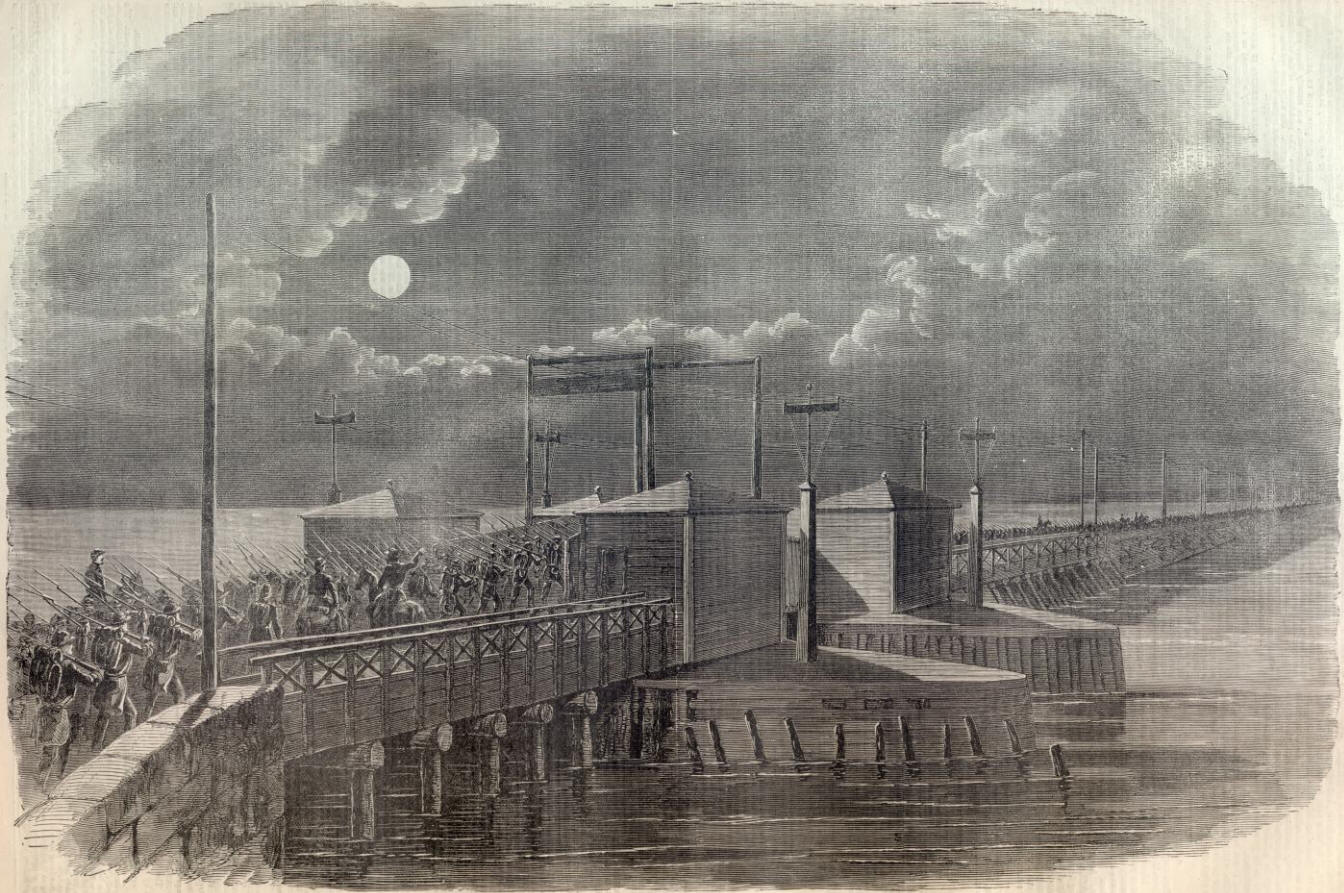 Union troops cross the Long Bridge on the night of May 24, 1861, as part of the Union occupation of Northern Virginia following the secession of that state. Engraving from the June 8, 1861 edition of Harper's Weekly.